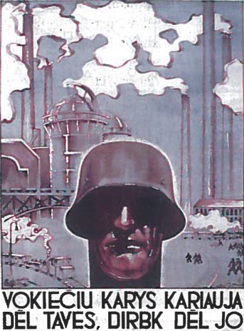 Nazi propaganda poster in Lithuania with text written in Lithuanian language: "Vokiečių karys kariauja dėl tavęs, dirbk dėl jo" (The German soldier is fighting for you, work for him).